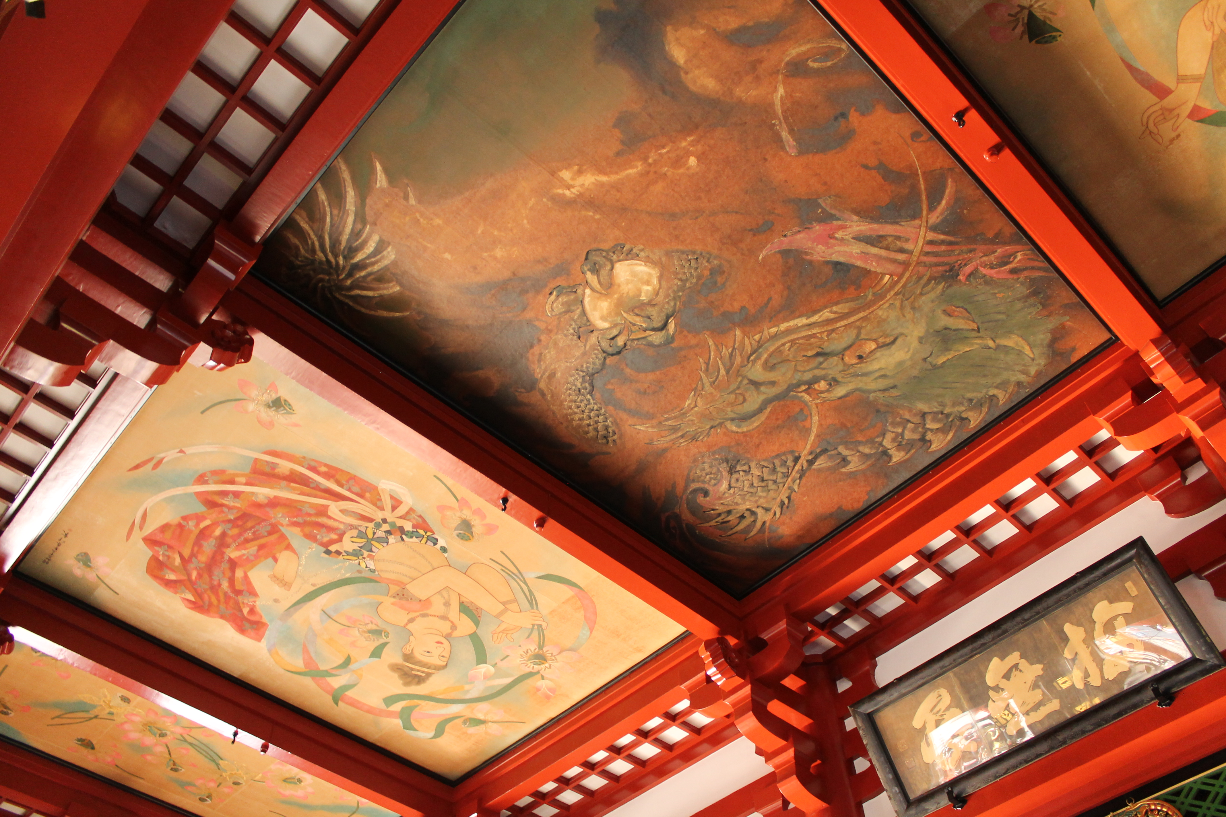 Ceilings at Sensō-ji